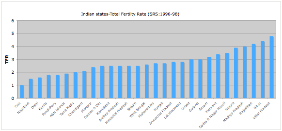 lucky Jolad, Excel plot of SRS survey data from [1]